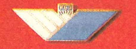 Preis für hervorragende Wissenschaftliche Leistungen in der FDJ